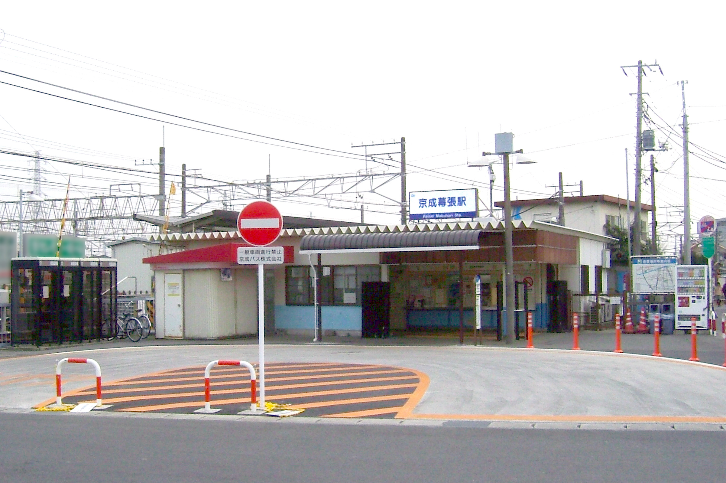 Keisei-Makuhari Station, Keisei Chiba Line